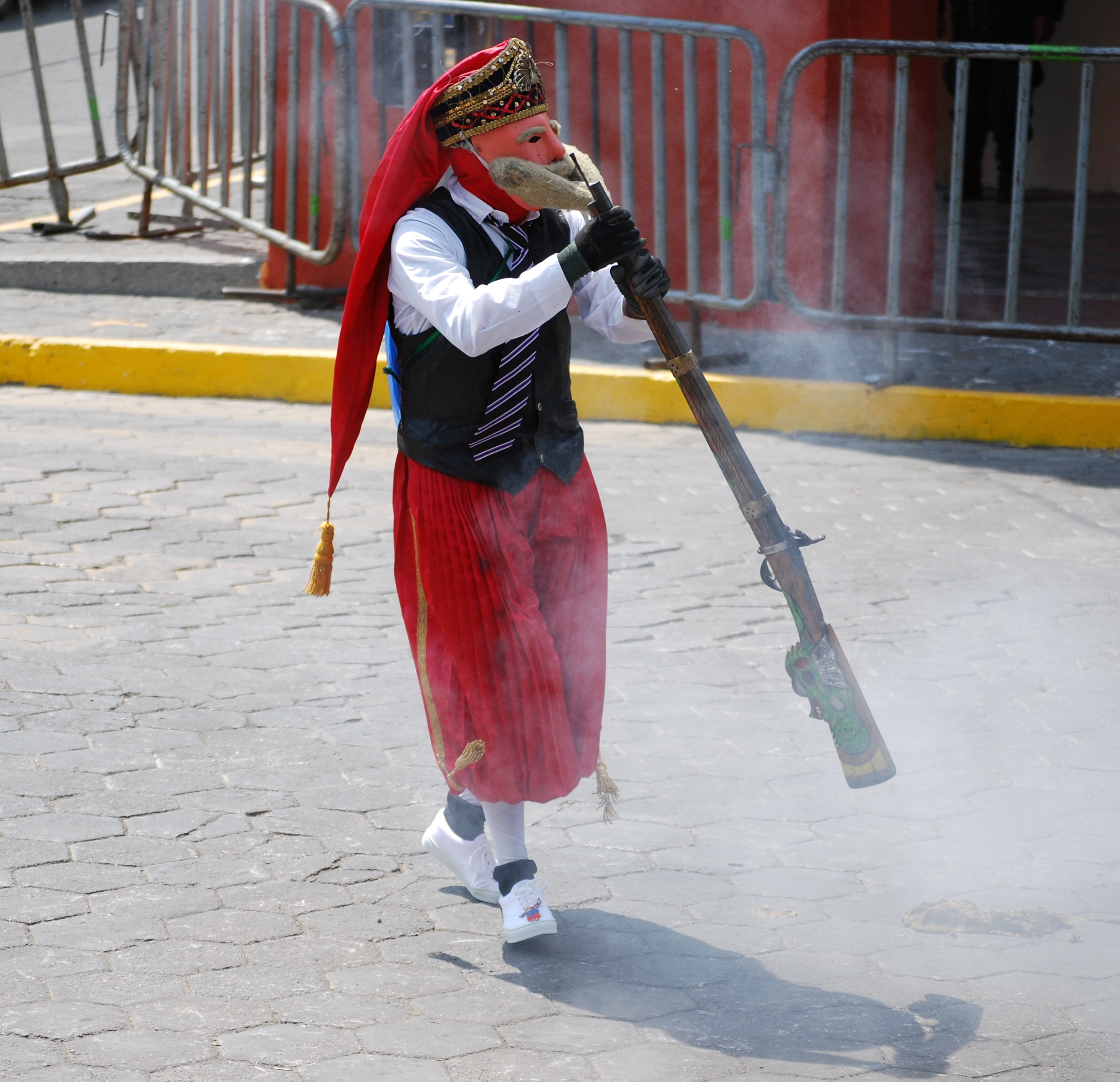 Zuave with rifle at the Carnival of Huejotzingo, Puebla, Mexico